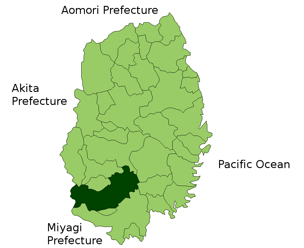 Location Map of Oshu in Iwate Prefecture, Japan